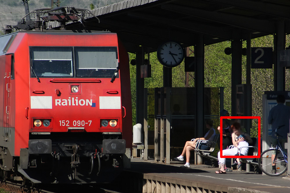 A mother protects her child from the noise of a freight train, passing through the station.